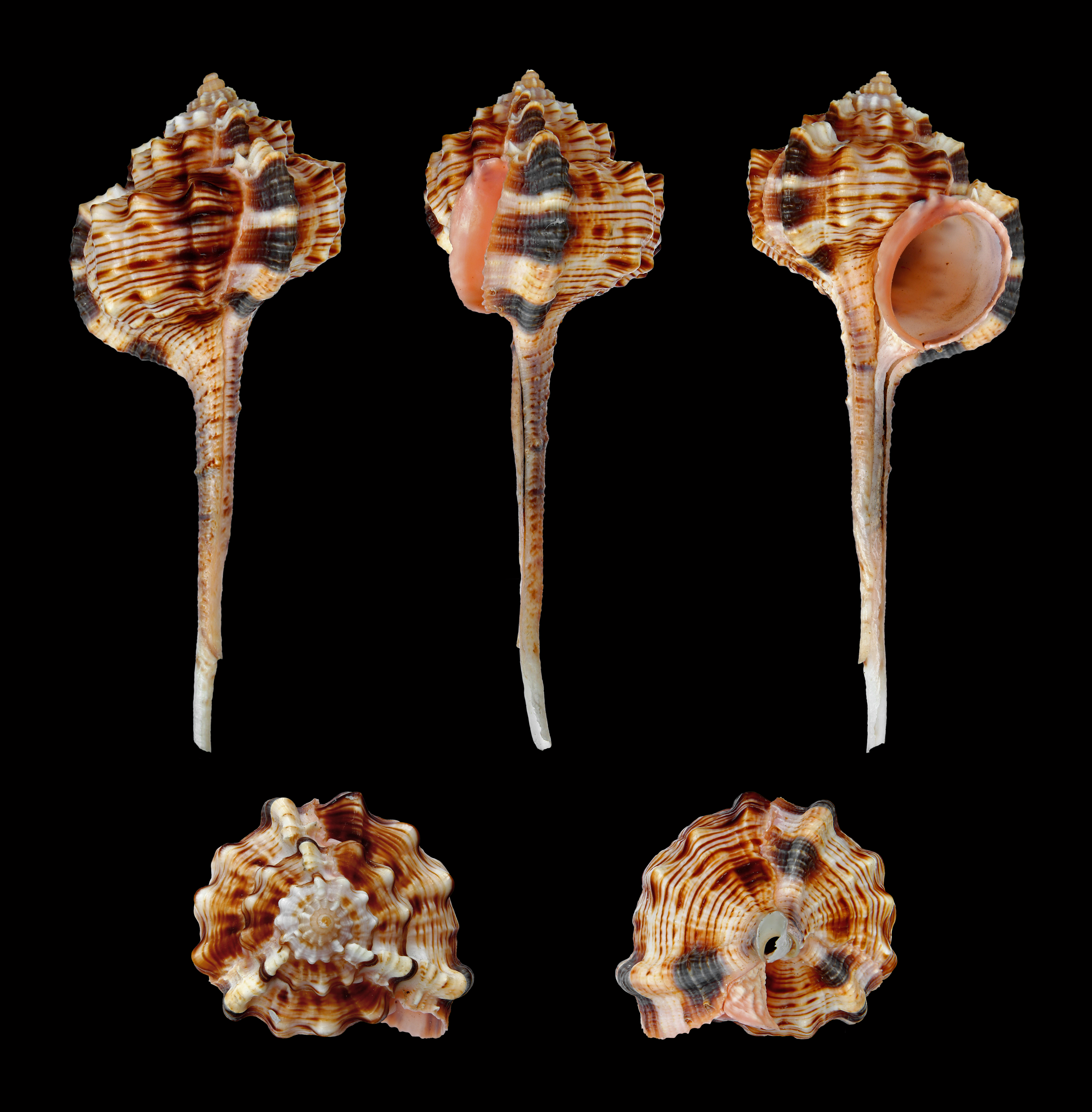 Snipe's Bill; Length 9.5 cm; Originating from the Indo-Pacific; Shell of own collection, therefore not geocoded. Dorsal, lateral (right side), ventral, back, and front view.